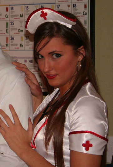 Thank God For Nurses and self-timers.